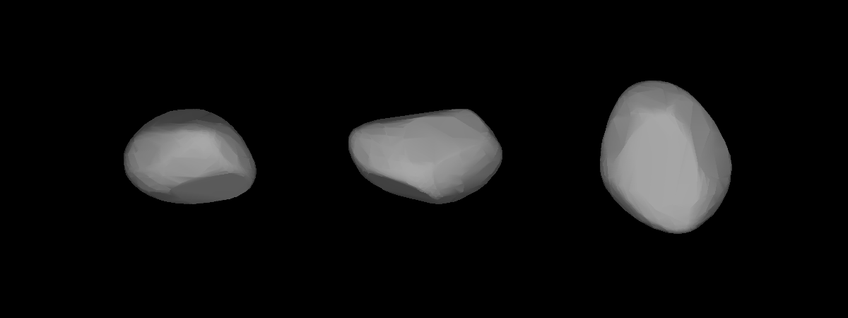 A three-dimensional model of 9 Metis that was computed using light curve inversion techniques.